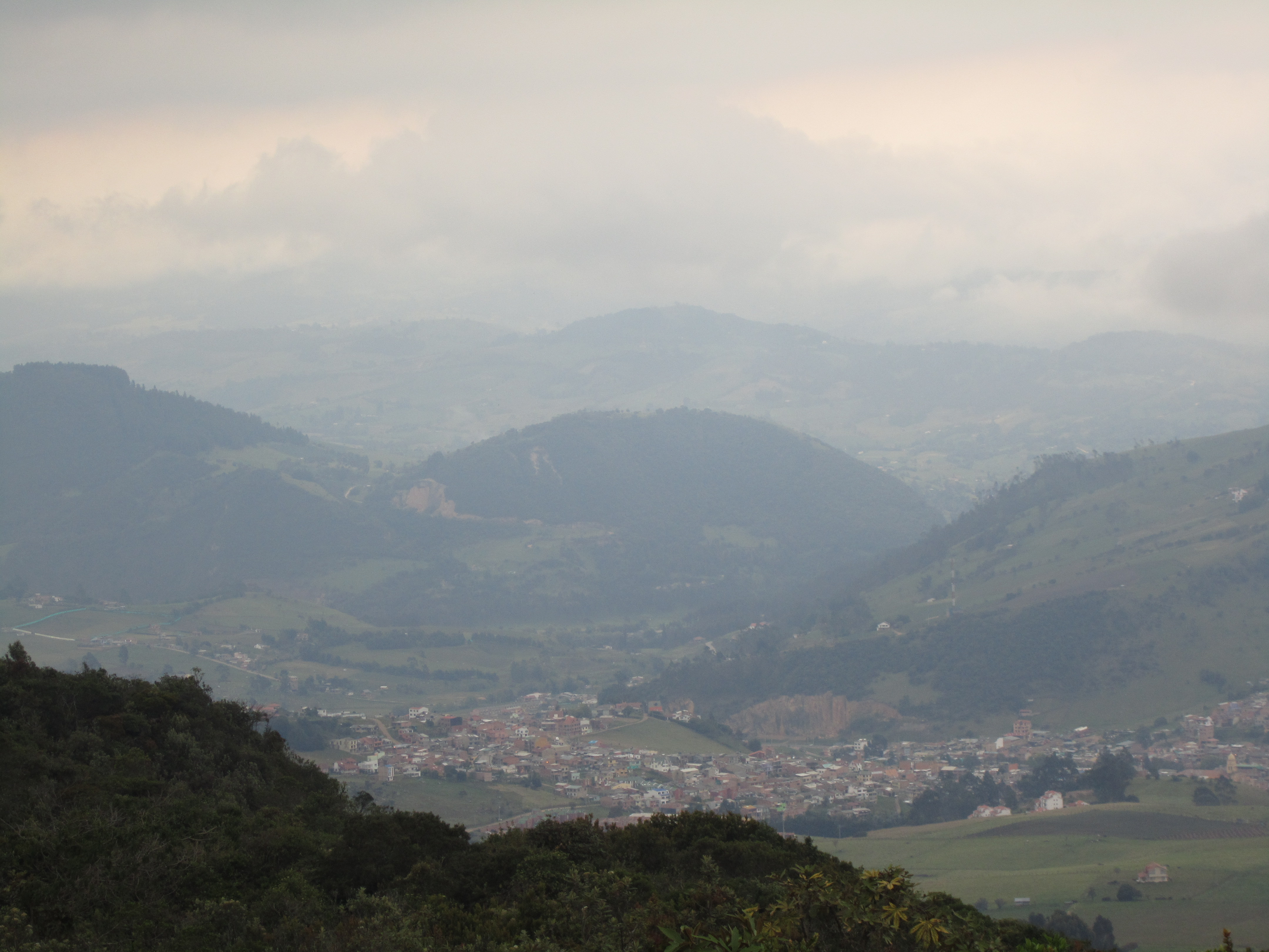 Easterly View of La Calera, Cundinamarca, Colombia, from a mountain to the west of the town.